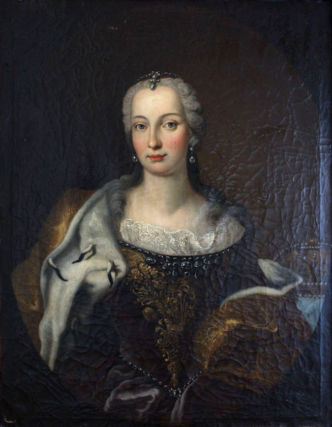 Portrait of Maria Theresa of Austria (1717-1780)